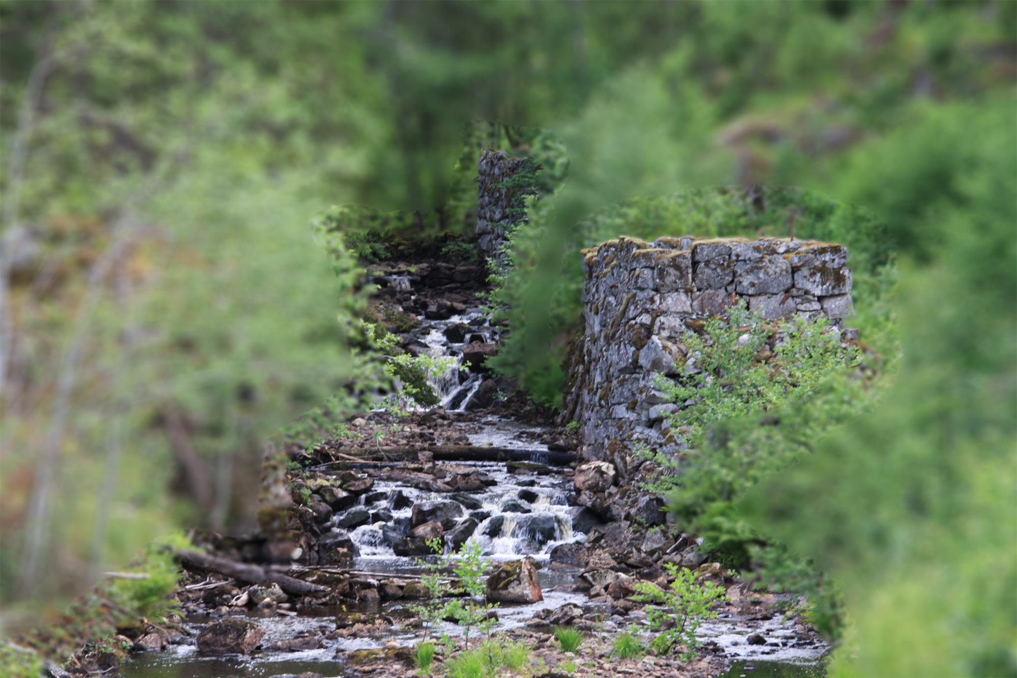 The Soot Canal - picture of old Lock (water transport)